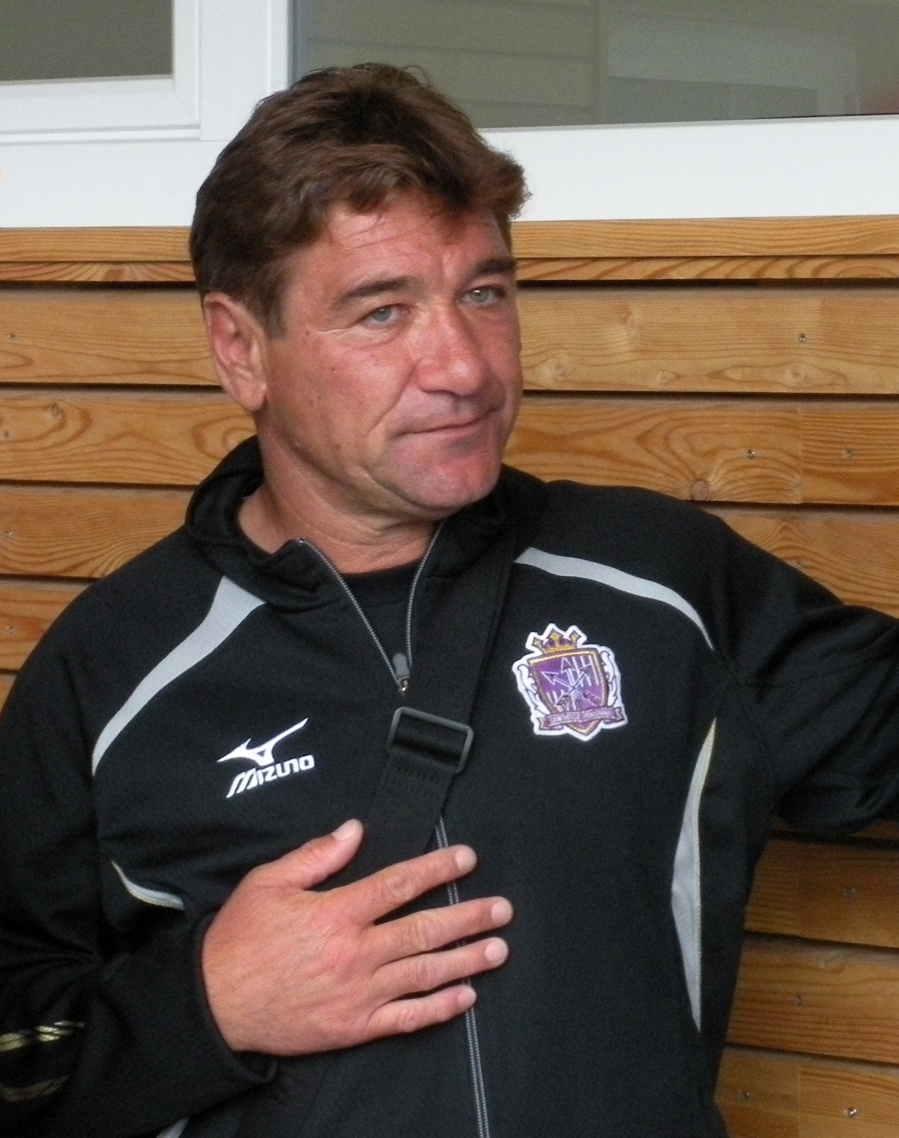 Hiroshima-manager Michael Petrovic before the international pre-season friendly Sanfrecce Hiroshima (Japan) vs Kapfenberger SV from Austria on 20 June 2010 at the football ground of LAC-Linden in Leibnitz (Styria / Austria)